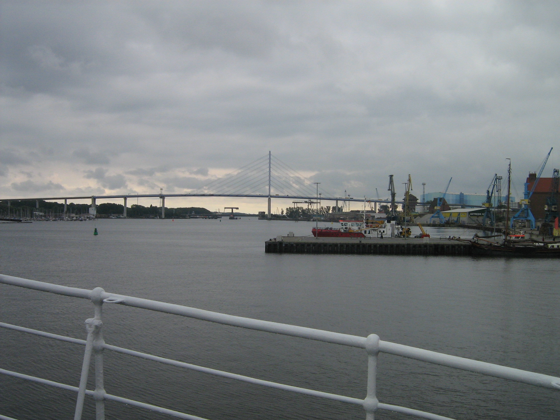 The brigde over the Strelasund in Germany